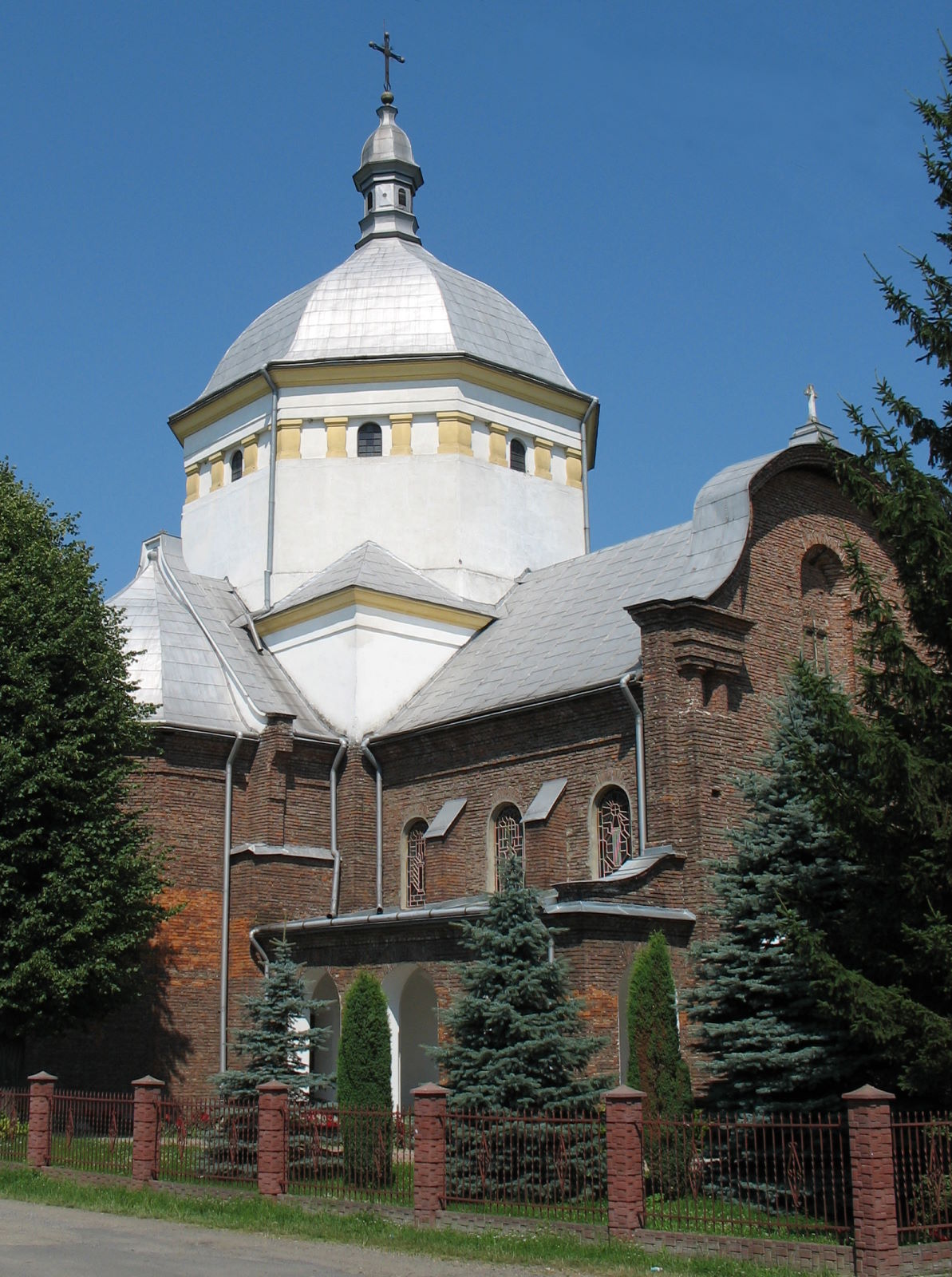 Former Greek Catholic church in Torki, Poland